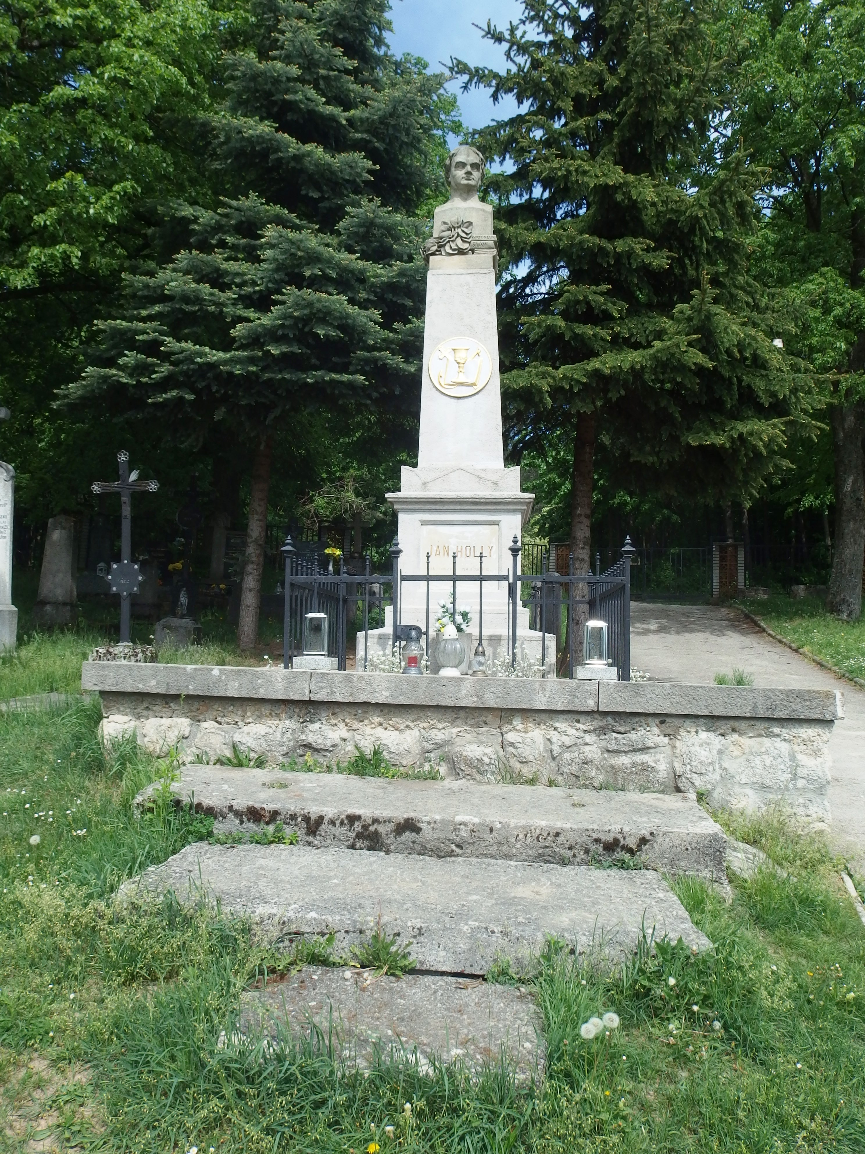 Dobrá Voda, Trnava District, Slovakia. Church.